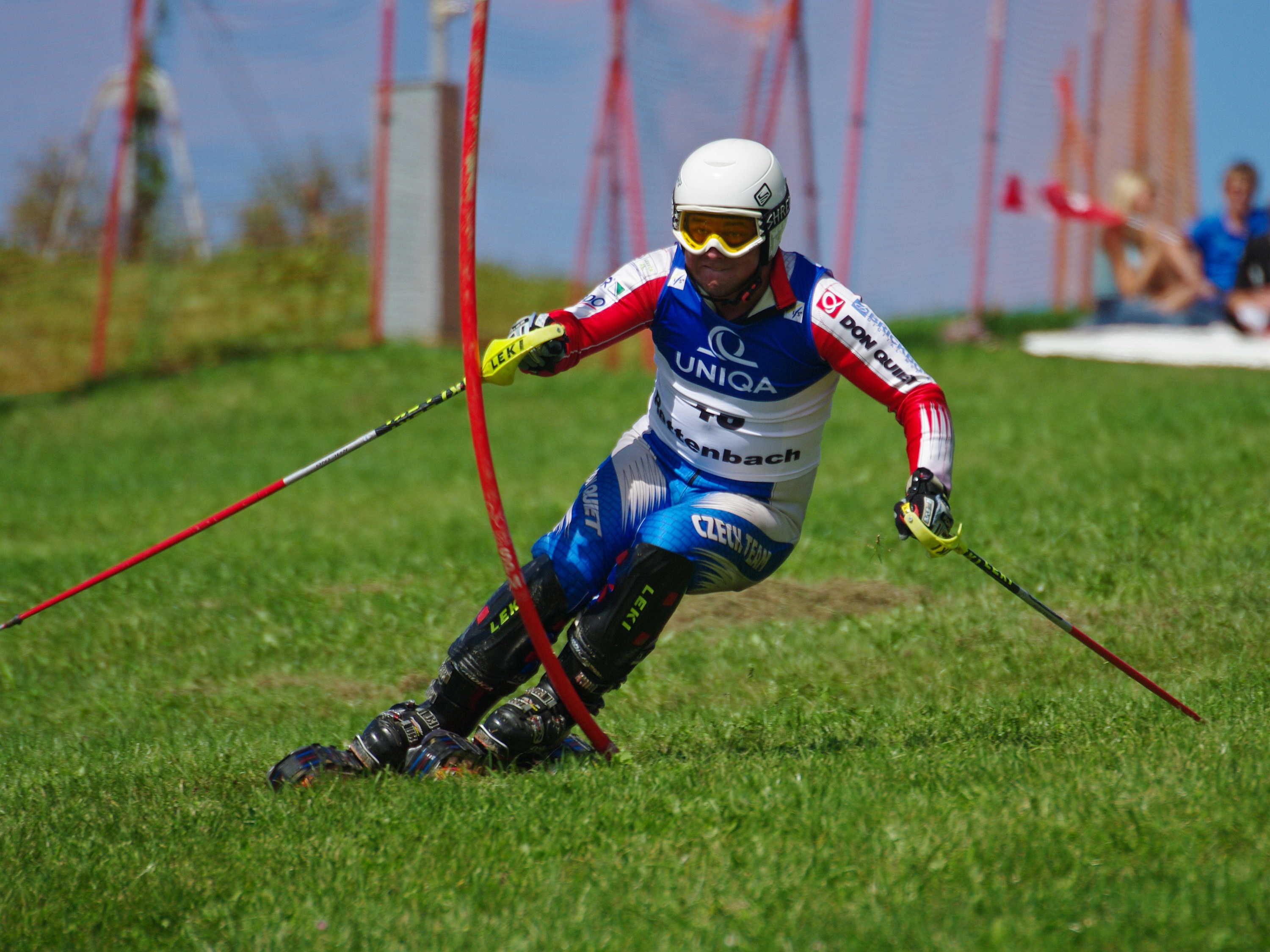 Czech grass skier Jakub Nekvapil in the second Slalom run at the 2009 Grass Skiing World Championships in Rettenbach, Austria.